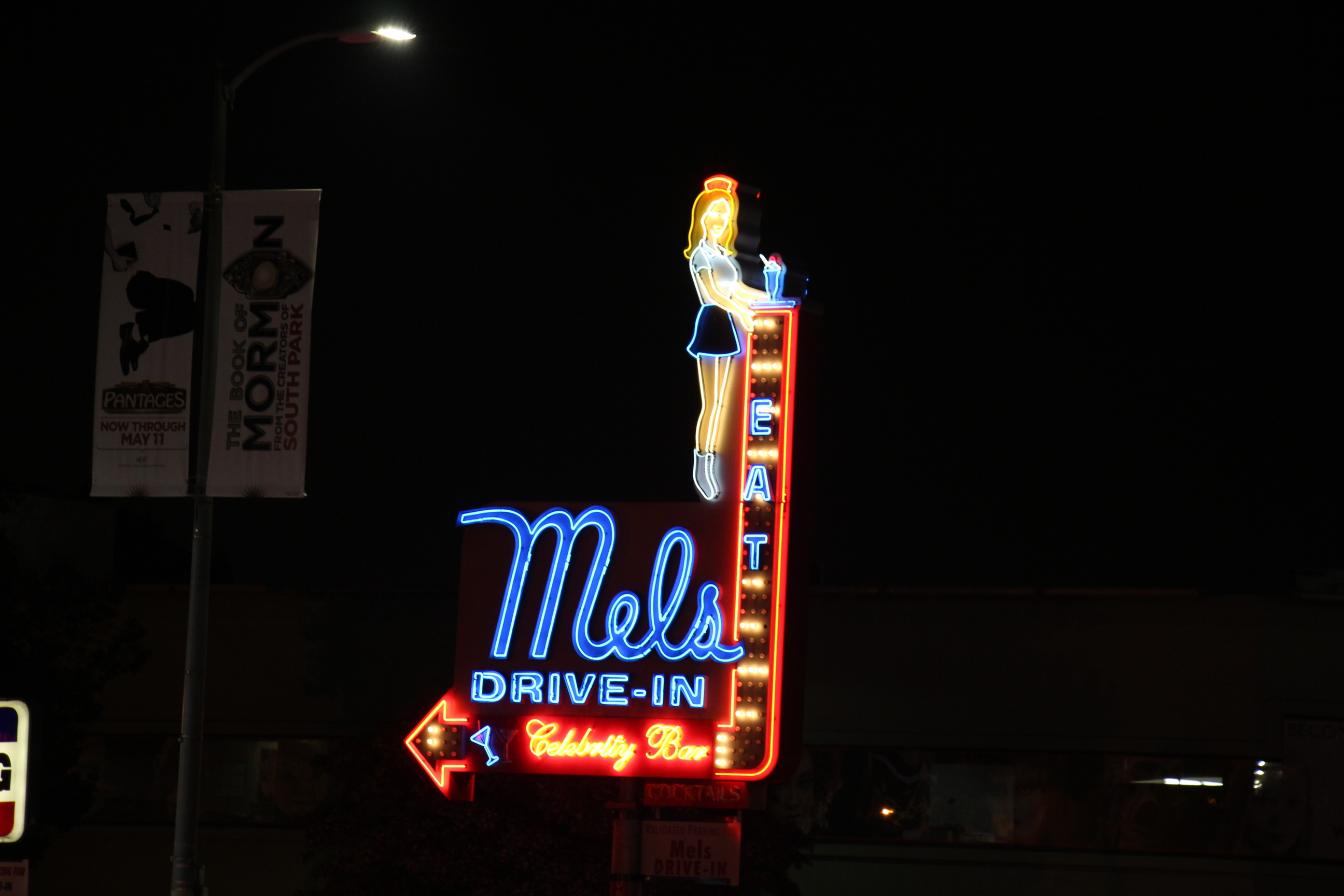 Sign for Mel's Drive-In, in the Max Factor building in Los Angeles, California